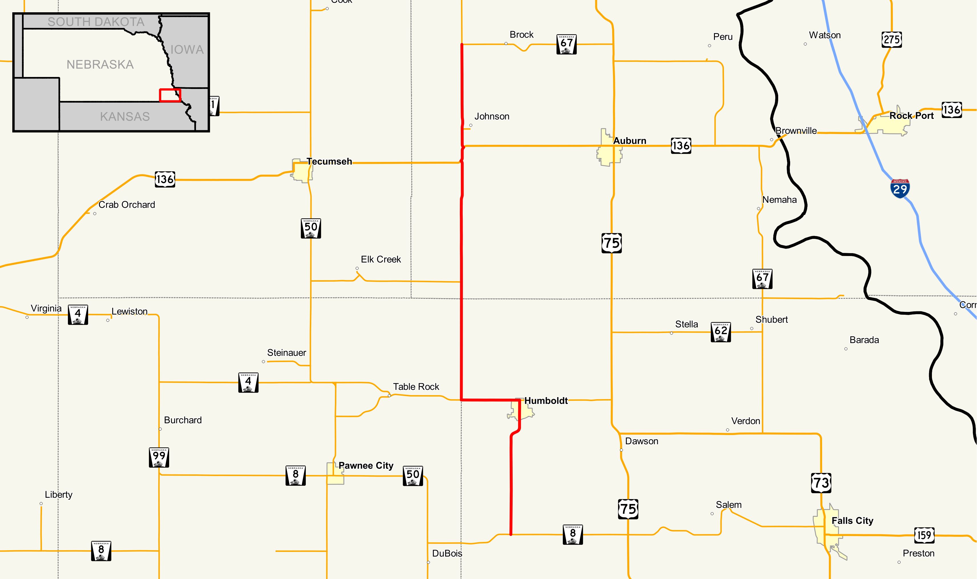 Map of Nebraska Highway 105 Data Sources: Nebraska Highways - - Dec 2016 Nebraska County Boundaries - - Dec 2016 Nebraska City Boundaries - - Dec 2016 This PNG graphic was created with QGIS